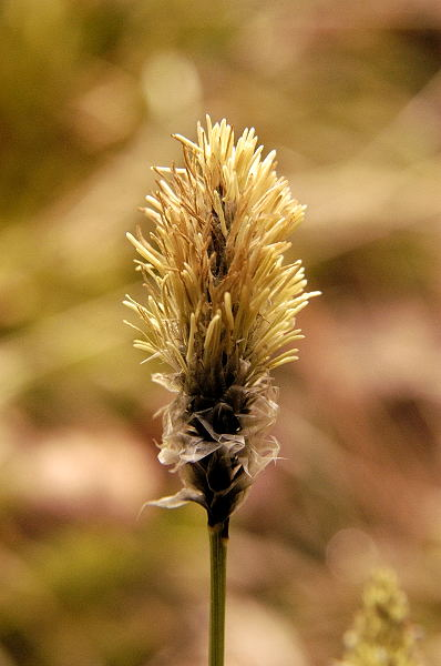 Picture taken in Commanster, Belgian High Ardennes . Species: Eriophorum vaginatum flower